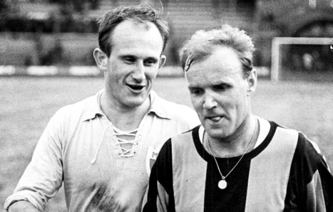 Lennart Skoglund and Ingvar Svahn